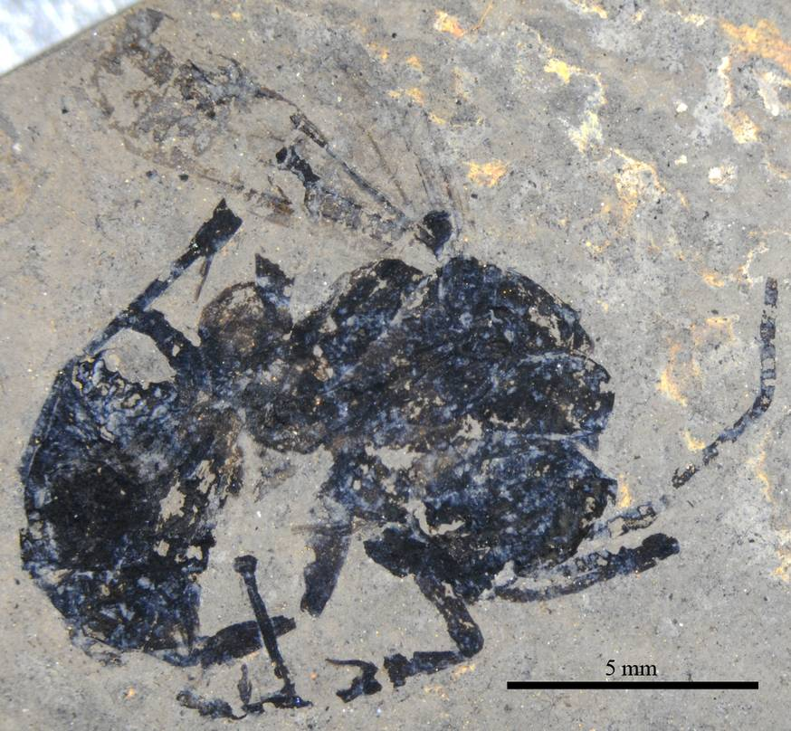 Pachycondyla petiolosa holotype gyne fossil. Lateral view. Specimen SMFMEI1893